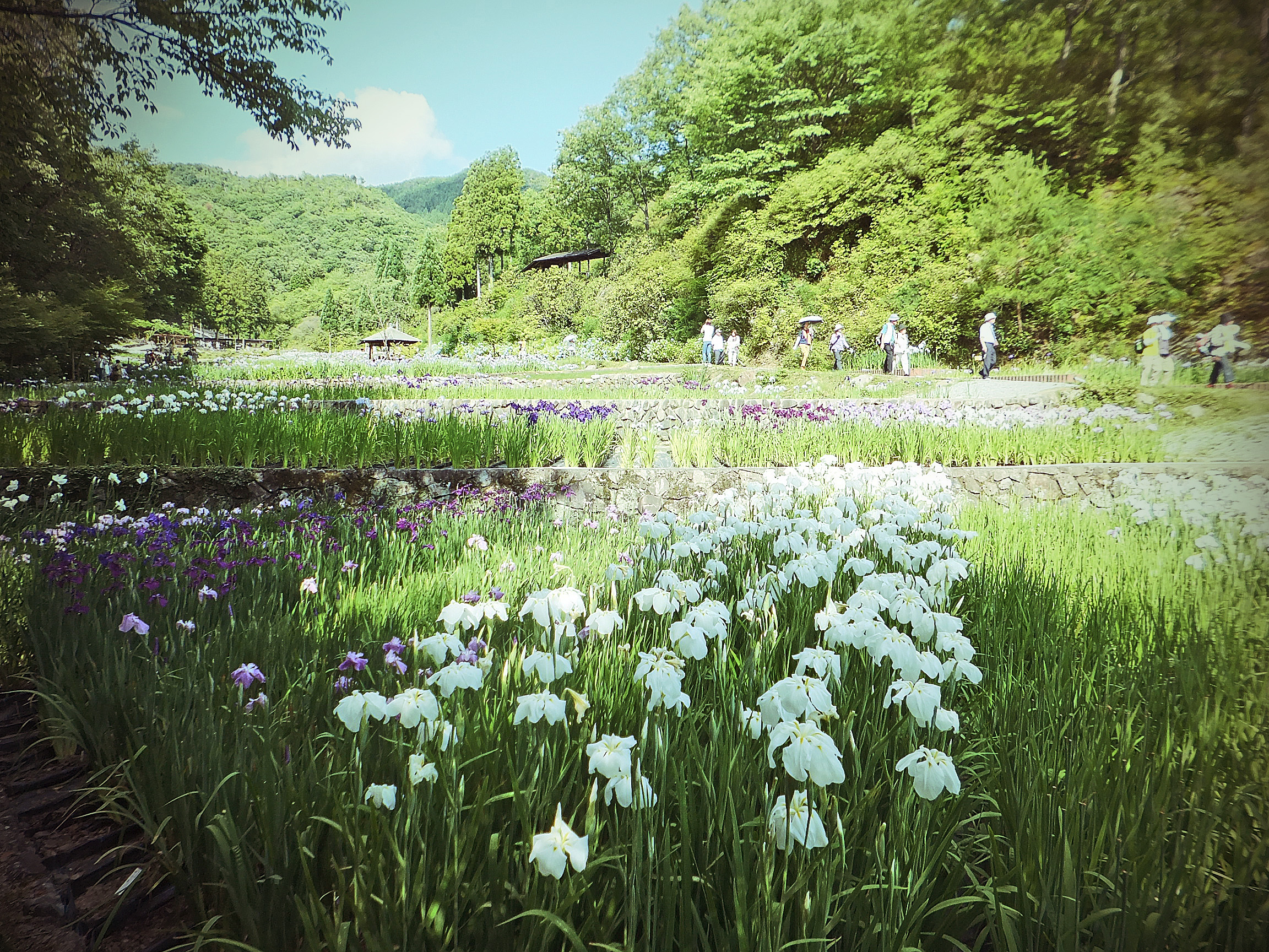 The Banshu Yamasaki Iris Garden on June 16th 2013, Northeast of Shisō in the Hyōgo Prefecture of Japan.